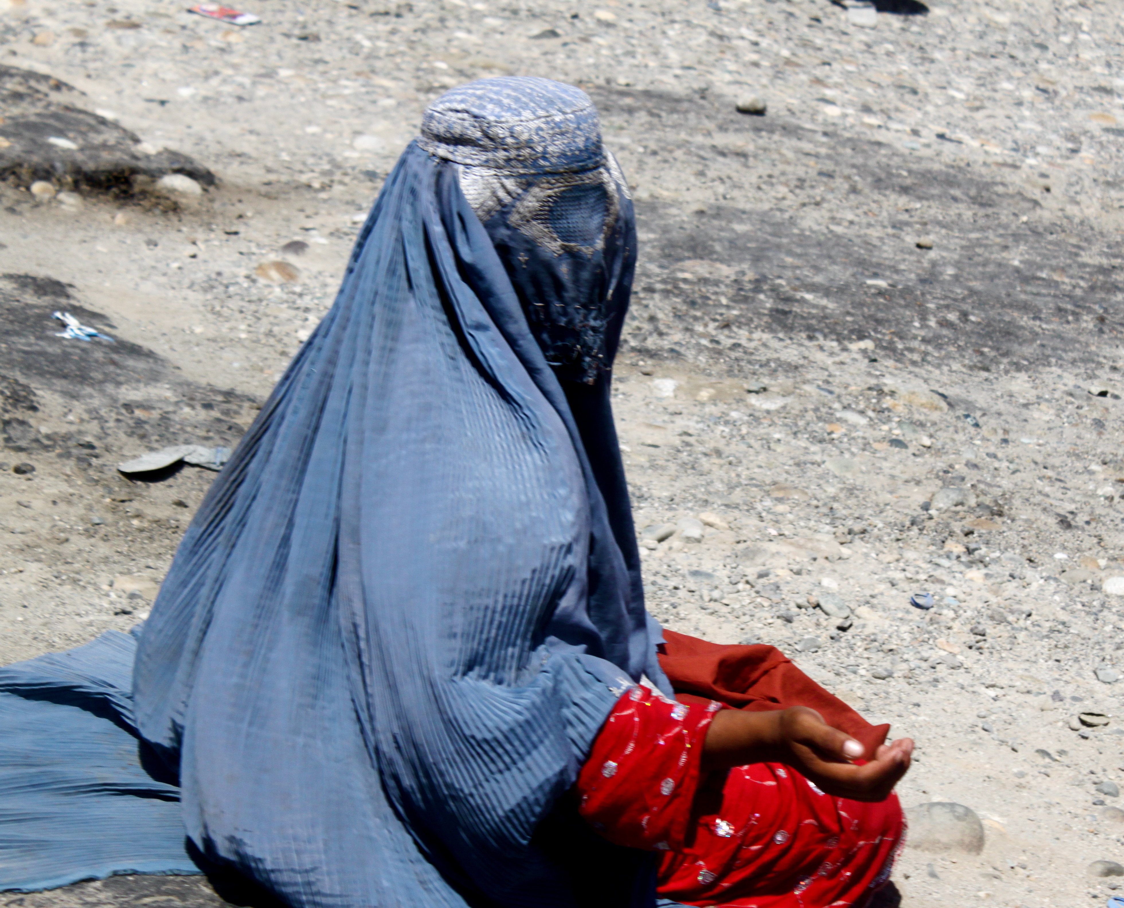 The following is the author's description of the photograph quoted directly from the photograph's Flickr page."Gas tankers are a common target for roadside attackers. Big. Slow. Impressive fireworks. They also damage the asphalt underneath the explosion. You have to slow down a bit over these sites.This woman was sitting in the middle of the road in the middle of an explosion site. Presumably as cars slow they're more likely to drop a few Afs.A woman in conservative parts of the country without male support can do nothing but beg to survive. "